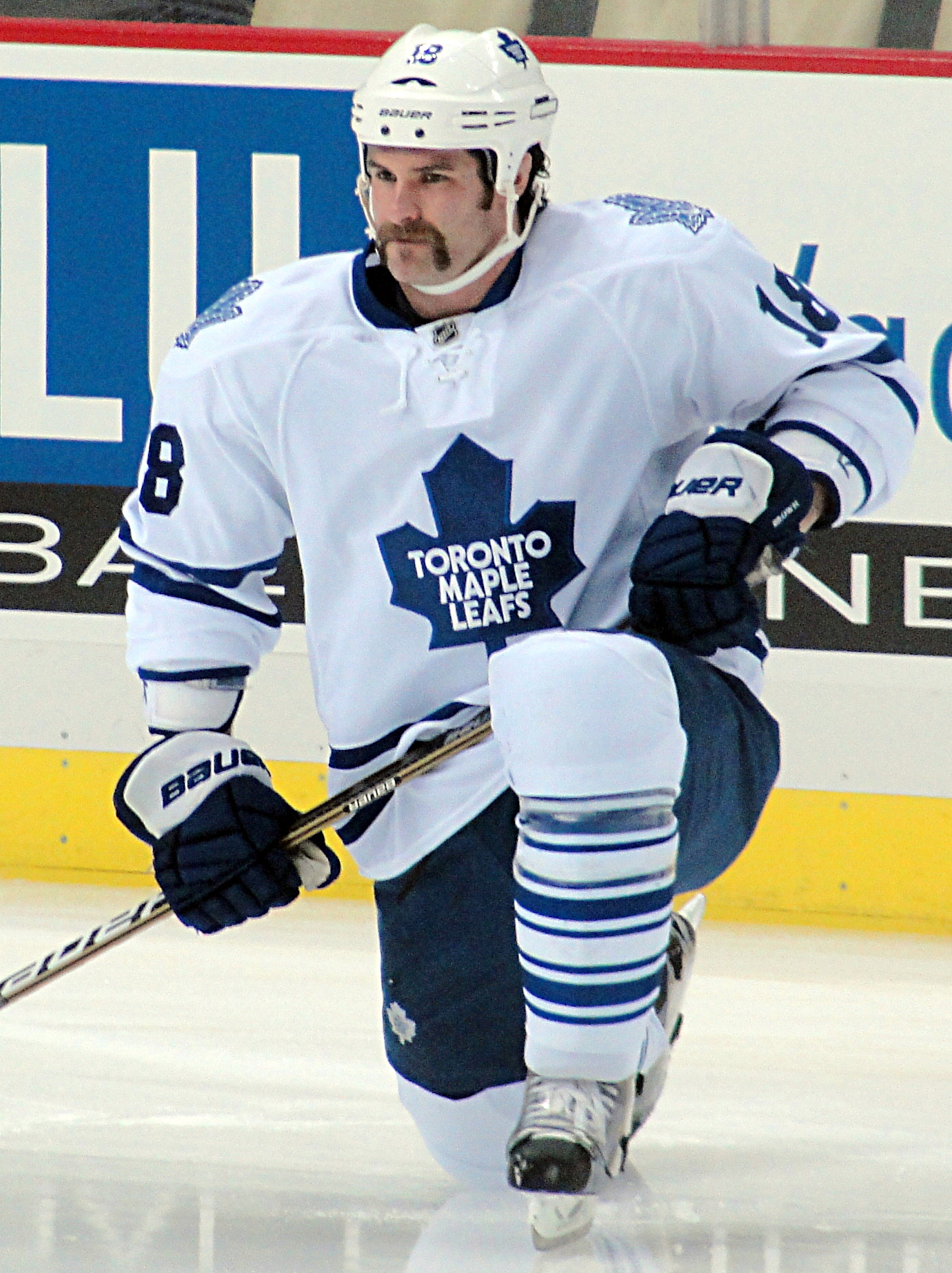 Toronto Maple Leafs forward Mike Brown skates against the Pittsburgh Penguins, March 7, 2012 at Consol Energy Center in Pittsburgh, PA.